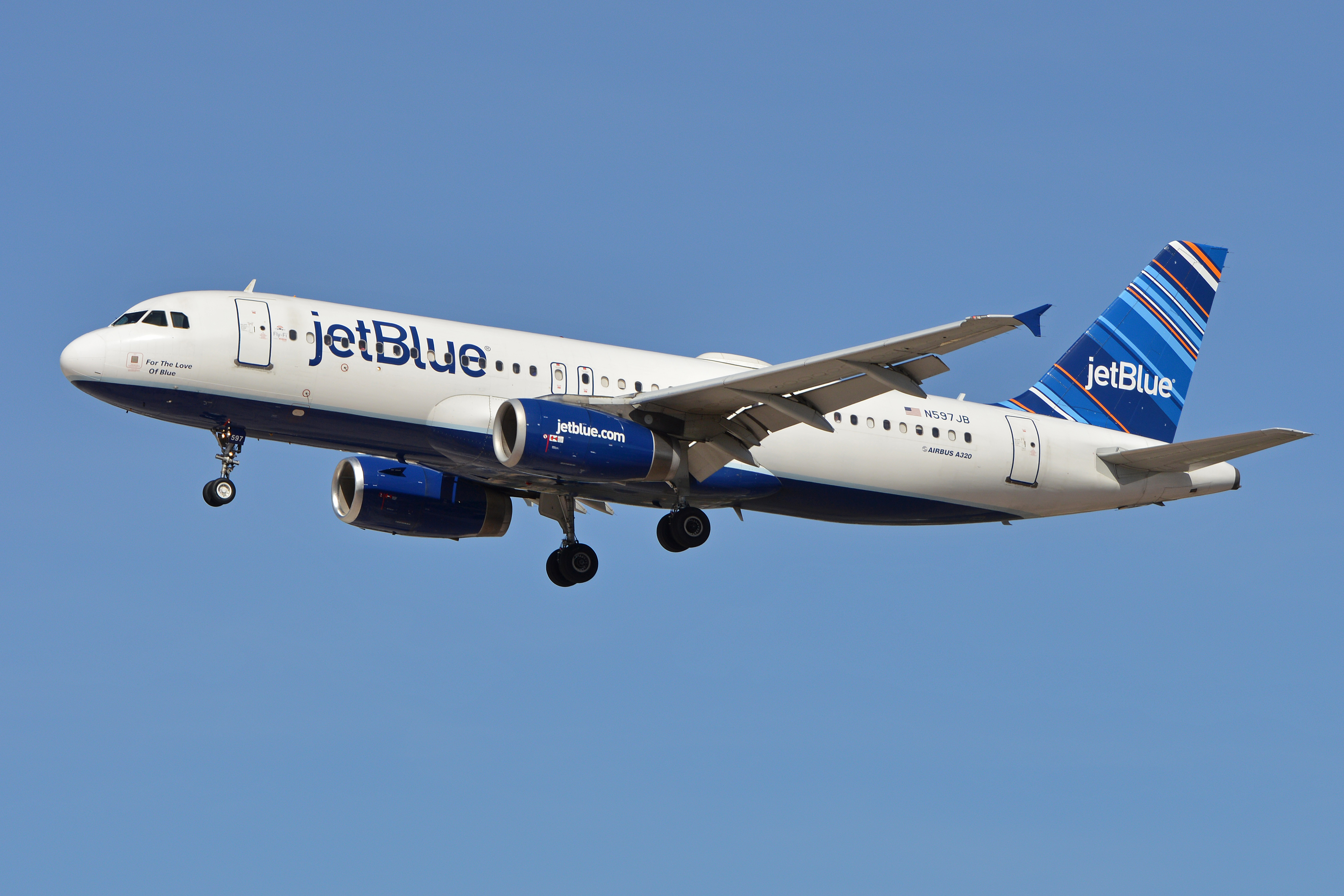 c/n 2307. Built 2004. Seen arriving on flight JBU1077 from Boston. McCarran International Airport, Las Vegas, NV, USA. 2nd March 2016.